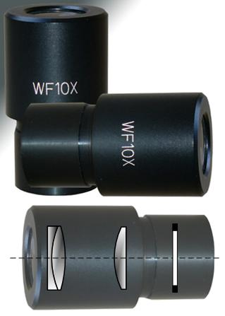 Microscope eyepiece.